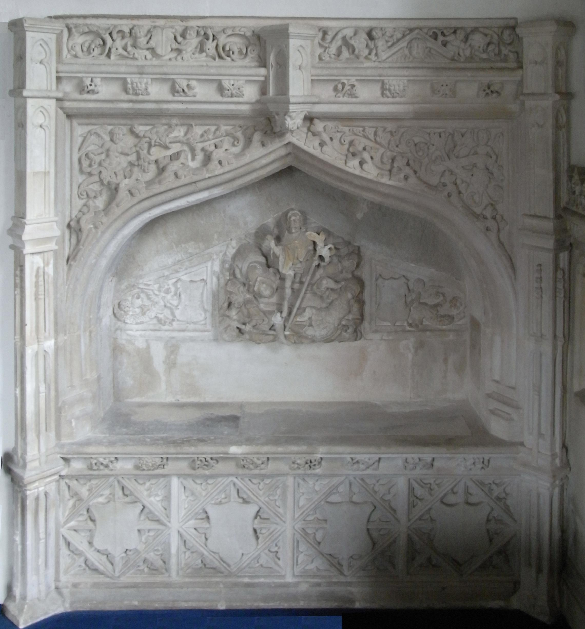 Easter Sepulchre, 16th.c. Holcombe Burnell Church, Devon, north wall of chancel. Monument to an unidentifiable member of the Denys family, lords of the manor. The main panel shows Christ arising from the tomb, with slumbering guards